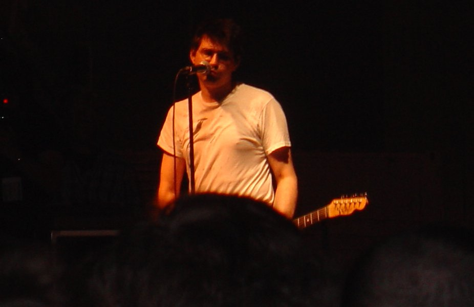 Steve Albini on stage in Chicago with Big Black.